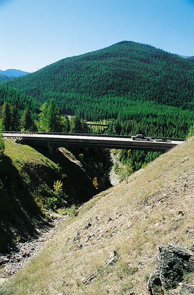 Goat underpass